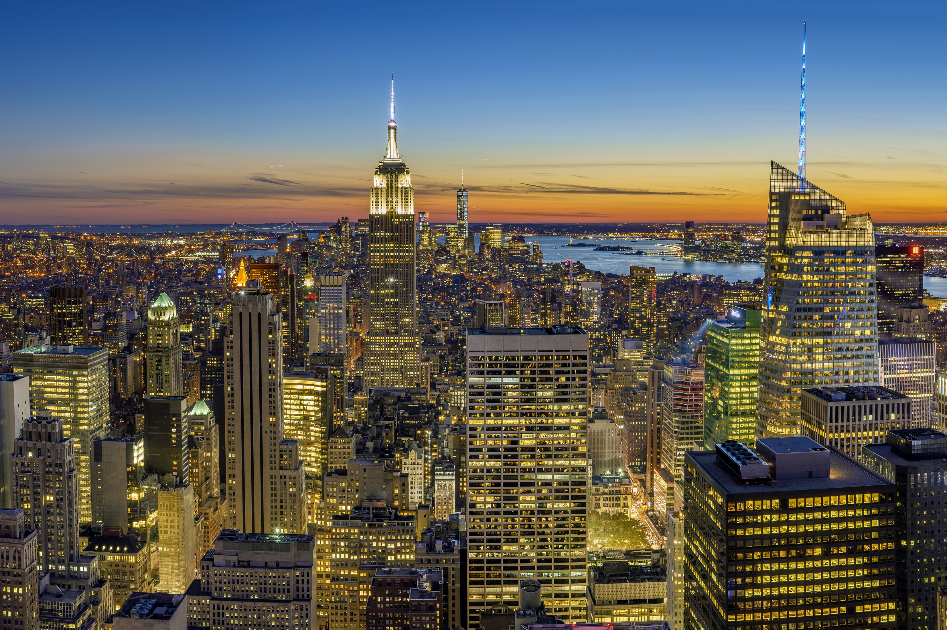 Rockefeller Center, New York, United States